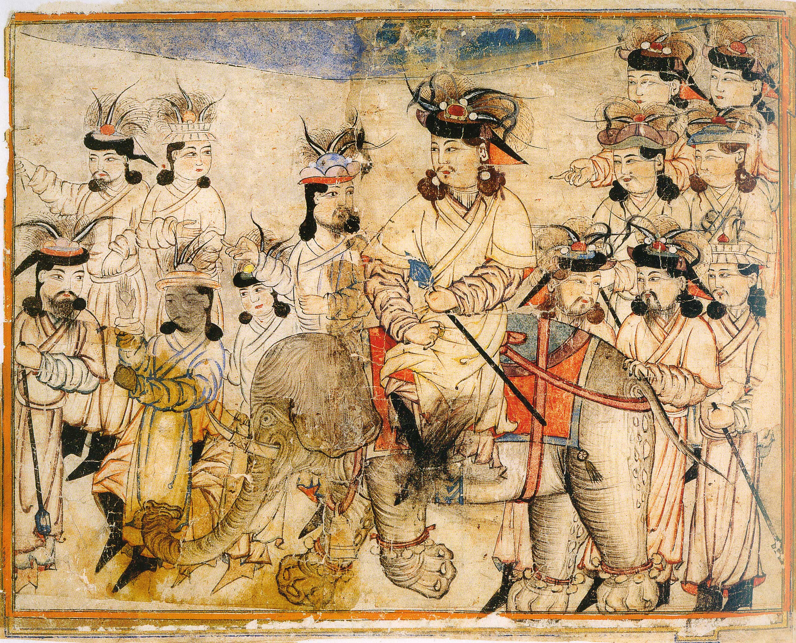 Ruler on an elephant. Illustration of Rashid-ad-Din's Gami' at-tawarih. Tabriz (?), 1st quarter of 14th century. Water colours on paper. Original size: 21.3 cm x 27 cm. Staatsbibliothek Berlin, Orientabteilung, Diez A fol. 71, p. 56.